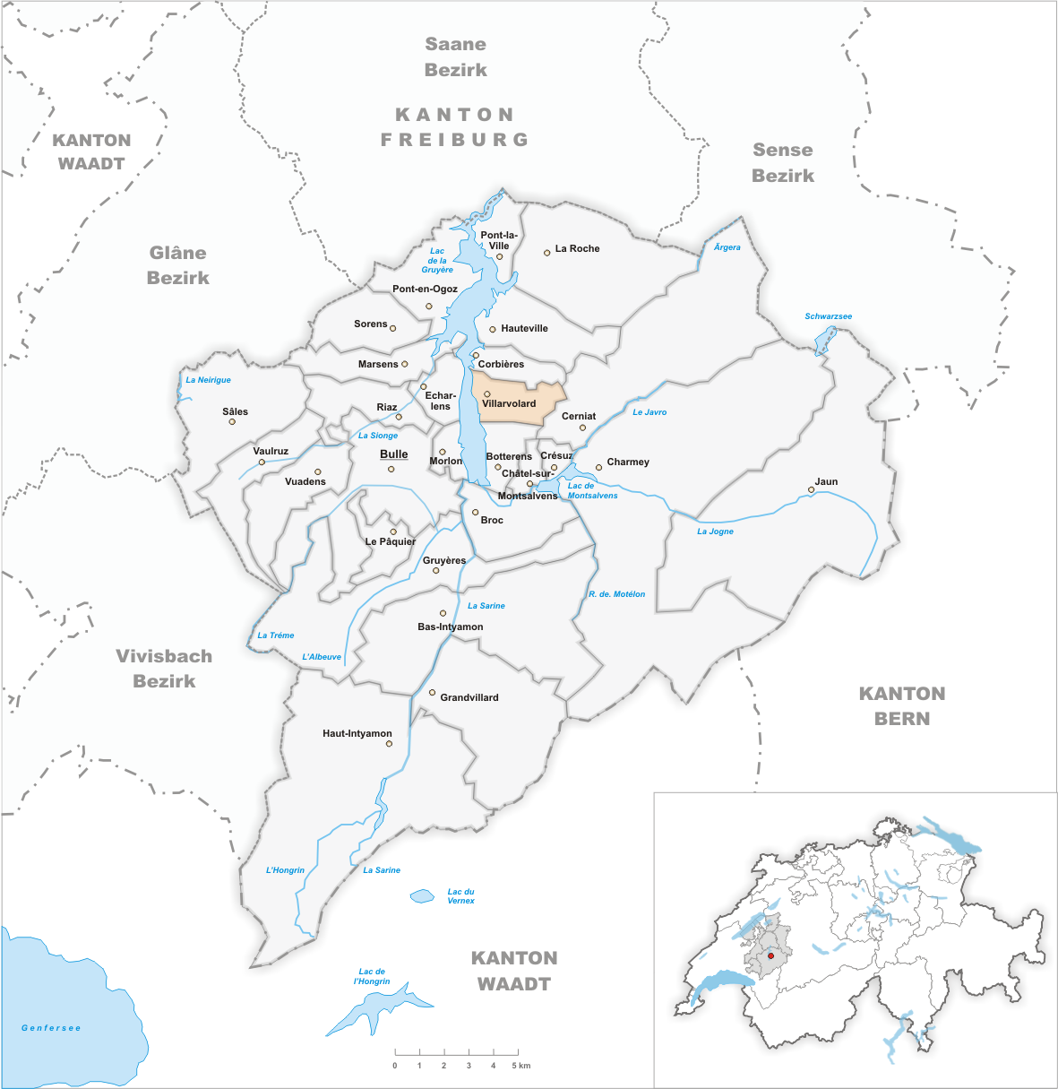 Municipality Villarvolard